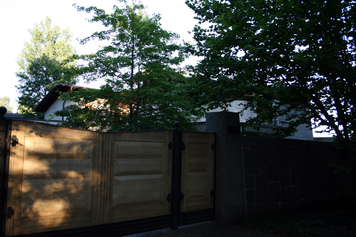 The house of Per Gessle, Swedish musician, on the island of Sandhamn in the Stockholm archipelago.